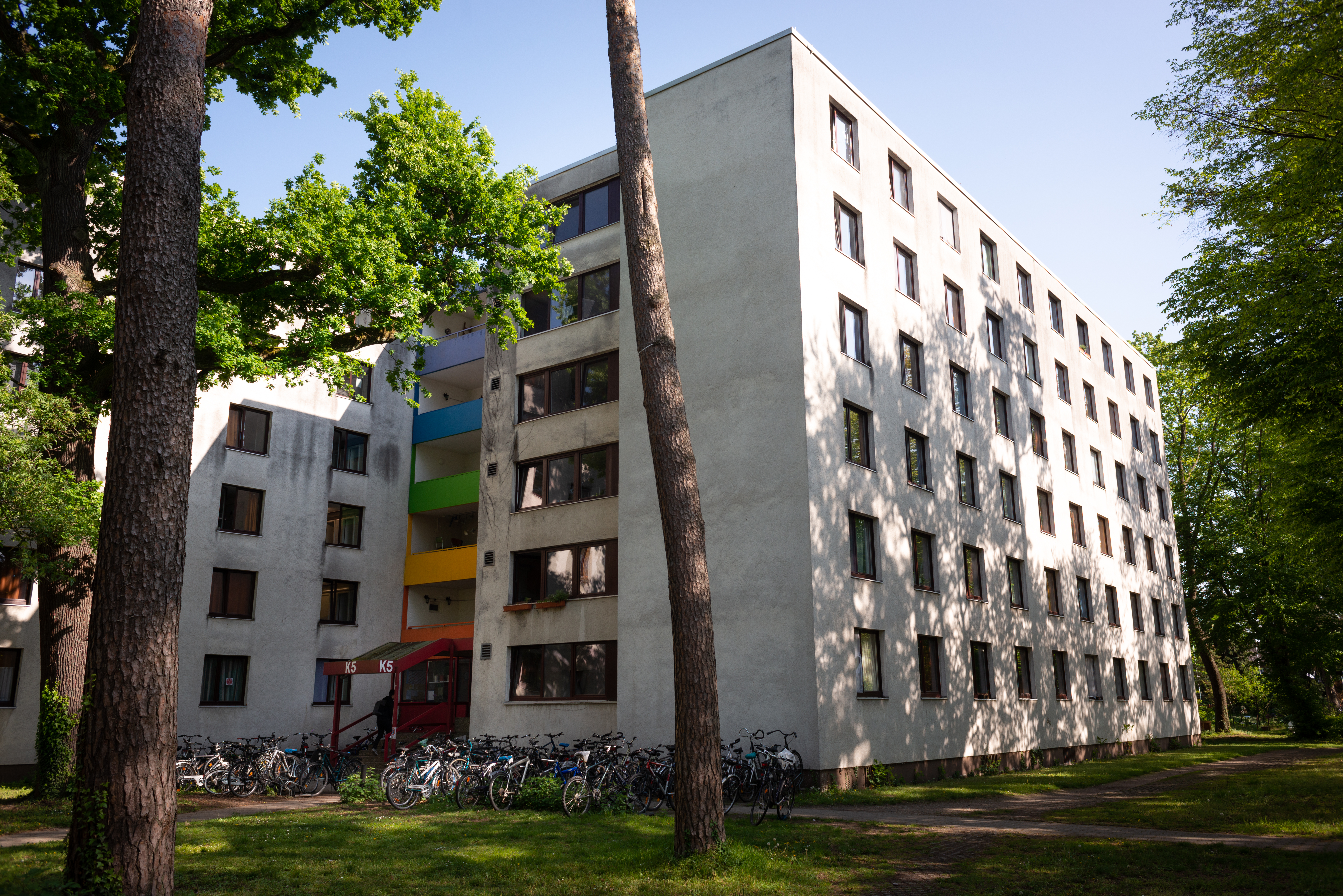 This Picture shows the House K5 of the Hans Dickmann Kolleg dorm in Karlsruhe